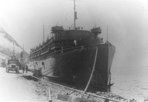 Taken from official U.S.Coast Guard site, CoastGuard.DODLive.mil, described online as "official blog" of the U.S. Coast Guard.